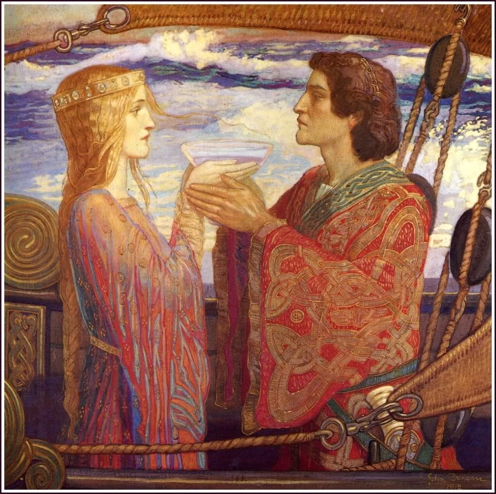 John Duncan, Tristan and Isolde.